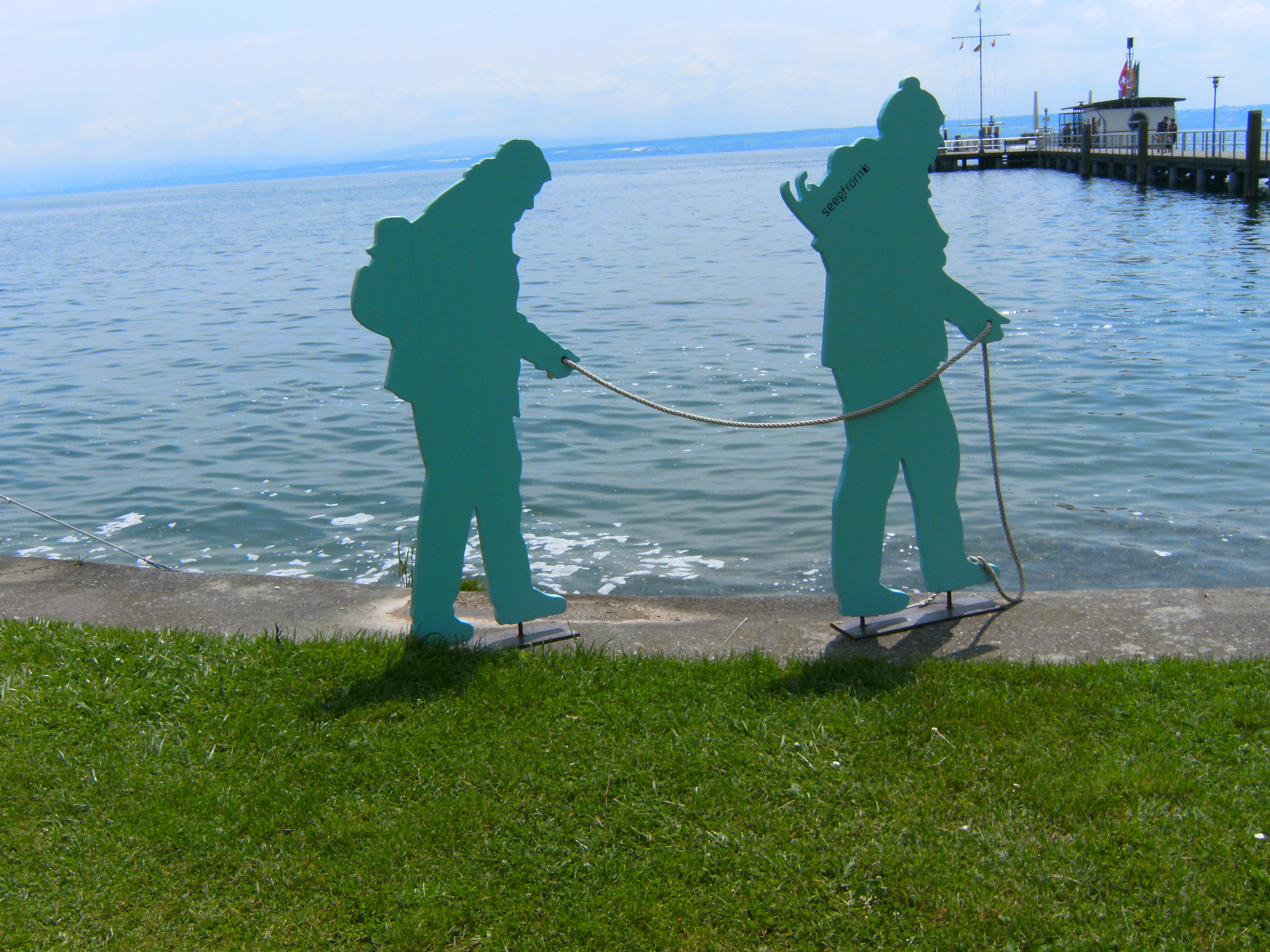 Silhouette-monument in Hagnau, Lake Constance in memory of those crossing frozen lake in 1963 from Hagnau in Germany to Güttingen in Switzerland and from Hagnau to Altnau in Switzerland.